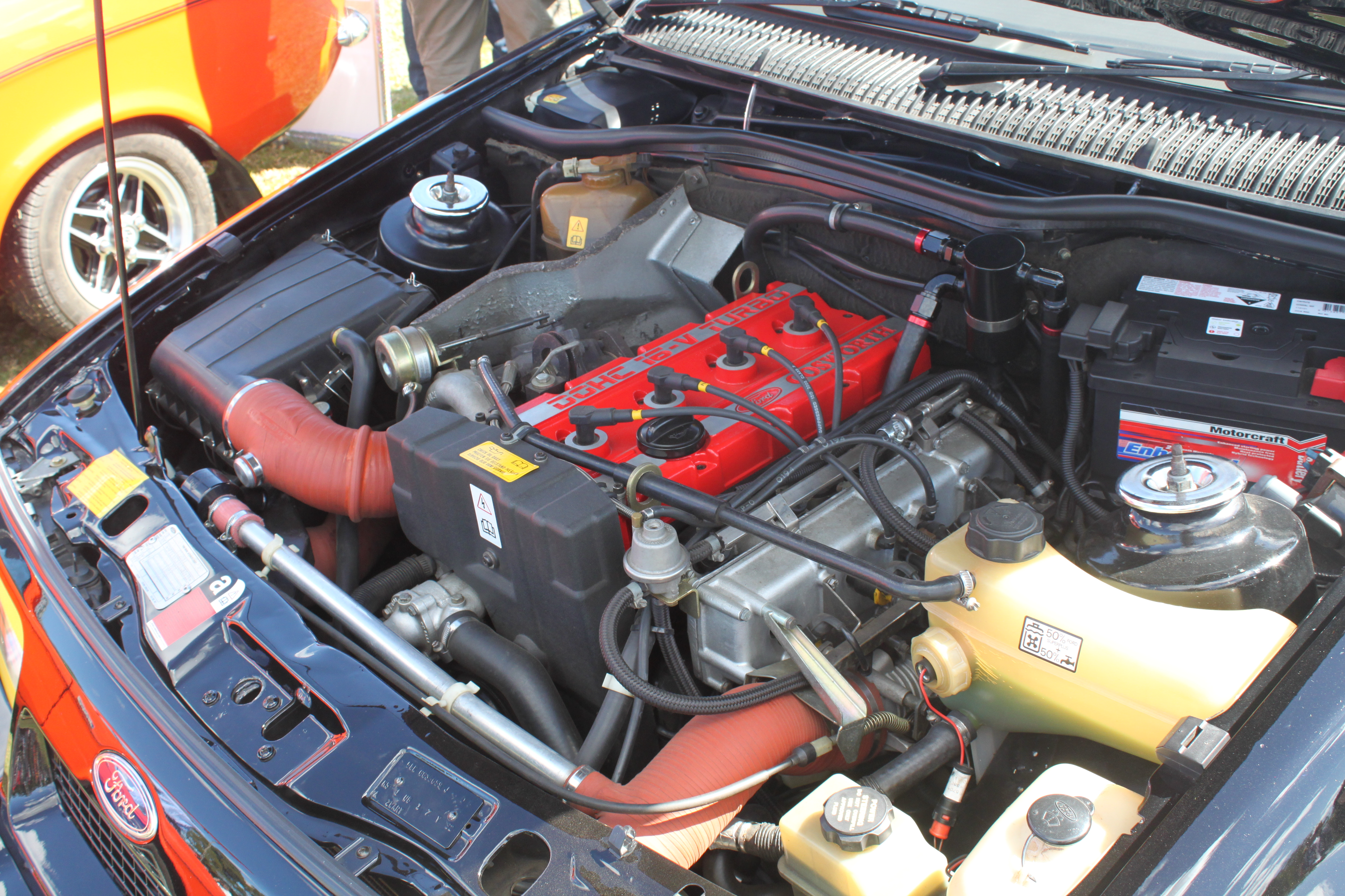 All British Day, Kings School, North Parramatta, NSW August 2015